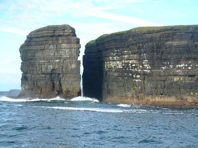 Loop Head. Diarmuid and Graine's Rock or Lover's Leap at Loop Head, Co. Clare. The rock layers are mostly sandstone with subordinate interbedded shale. The rocks are part of the Ross Formation of Carboniferous (Namurian) age.